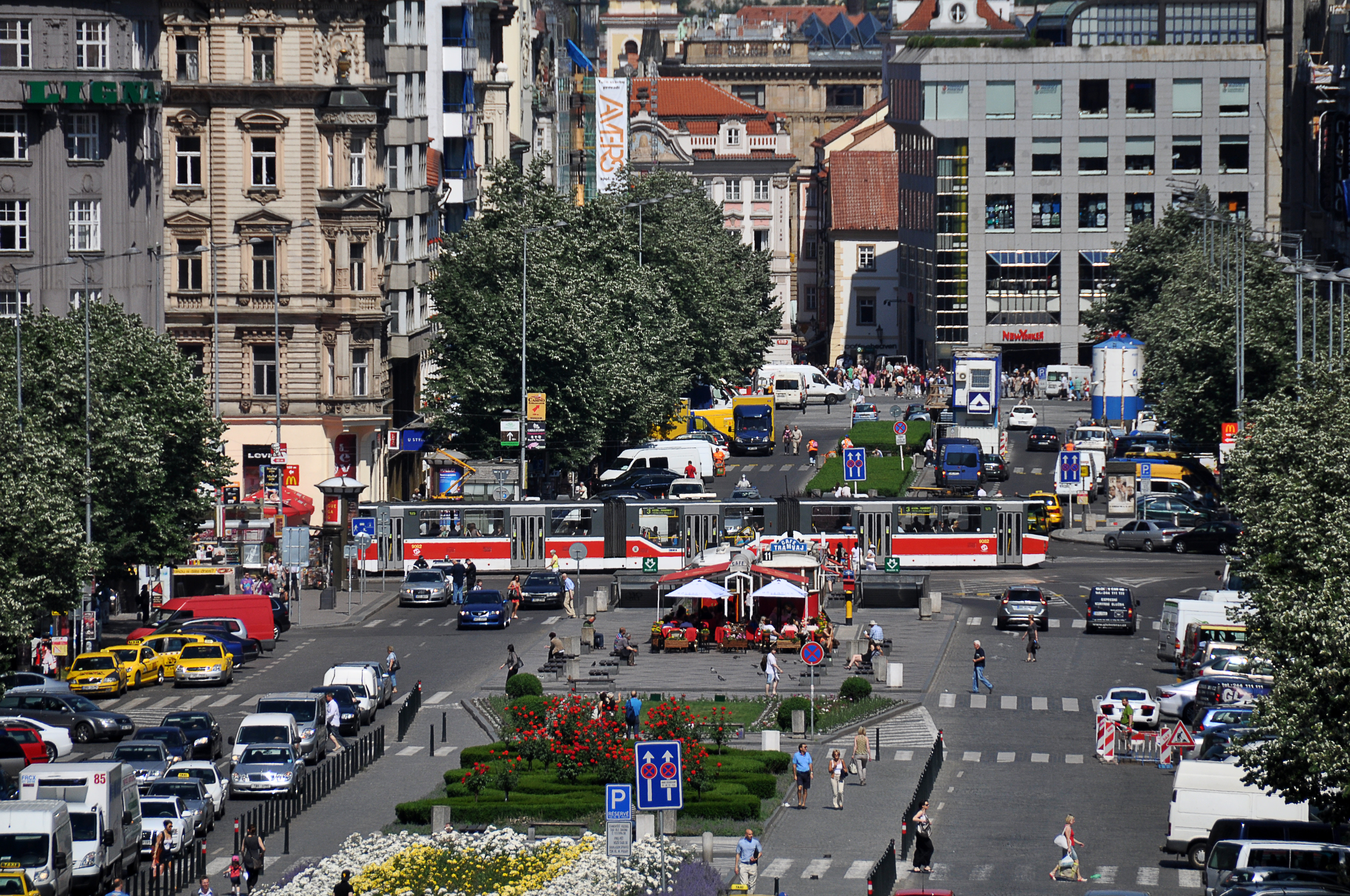 Wenceslas Square in Prague